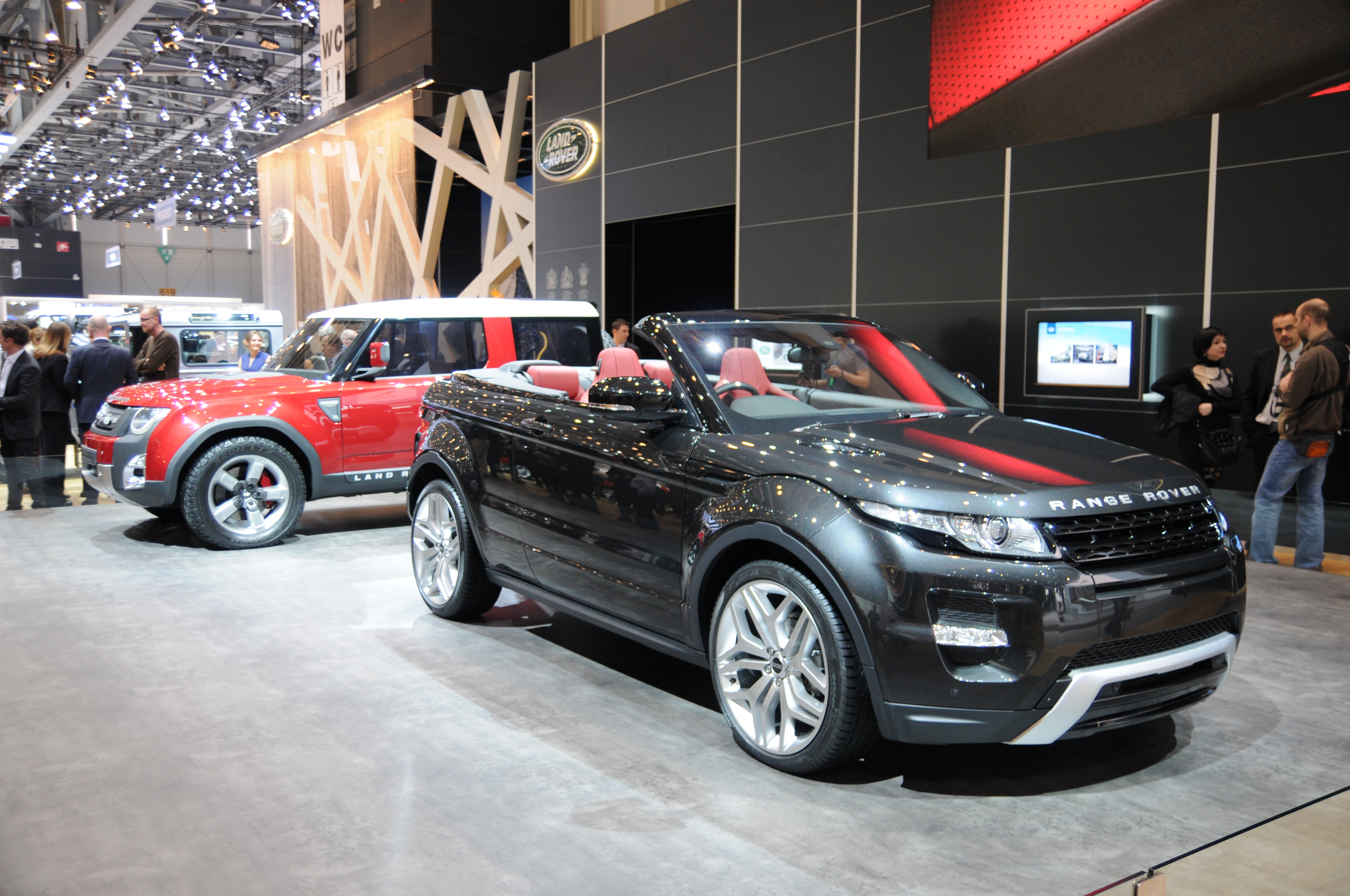 Geneva Motor Show 2012 (photos taken on the second press day)